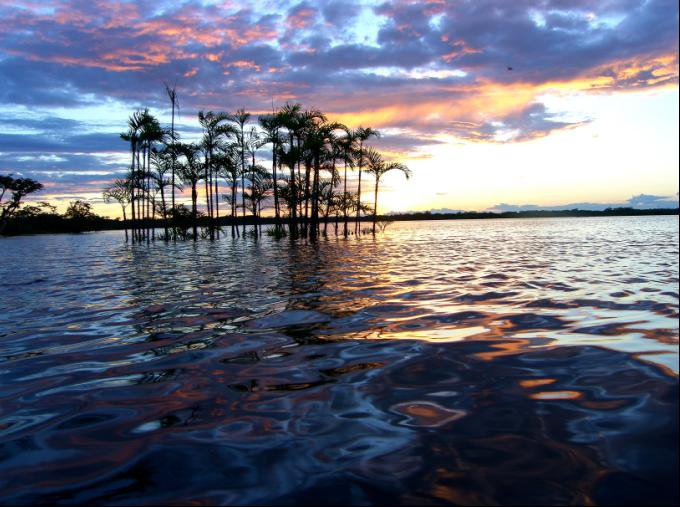 Laguna Grande, located in the heart of the Cuyabeno Wildlife Reserve